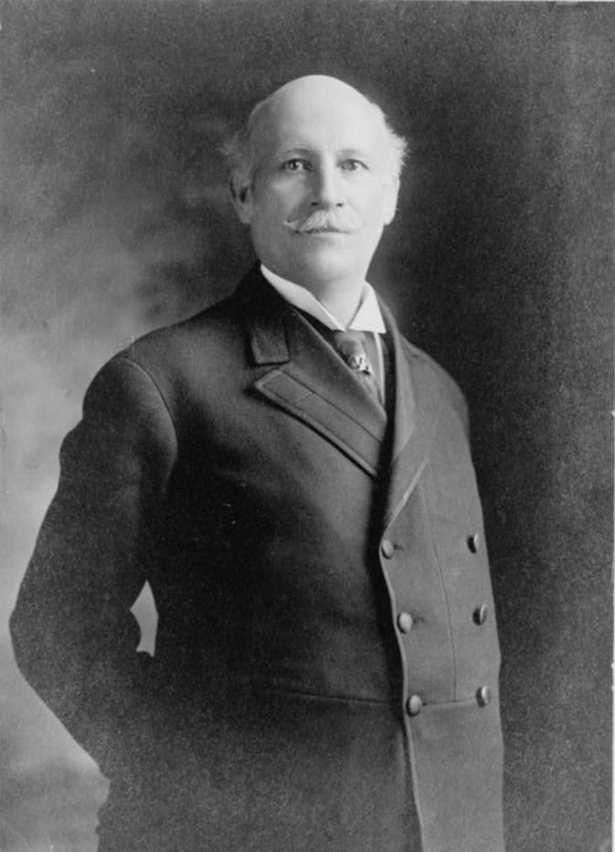 Senator Robert Love Taylor (1850–1912) of Tennessee